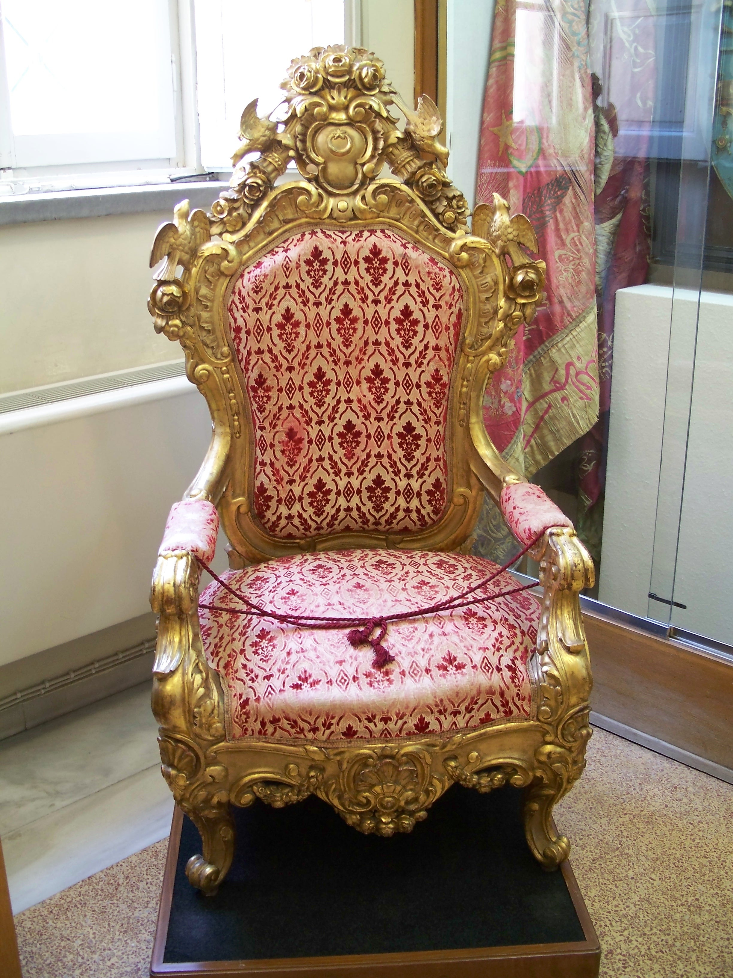 Ottoman throne seized from Thessaloniki during its handing over to the Greeks (1912), possibly of Abdul Hamid II or Mehmed V. National Historical Museum, Athens, Greece.